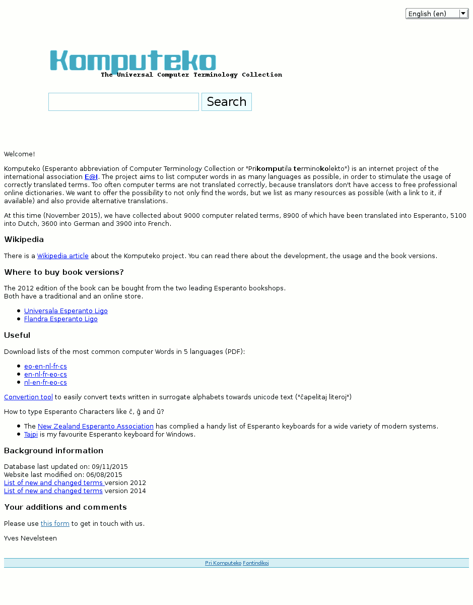 A screenshot of the website as seen on 2015/11/22.